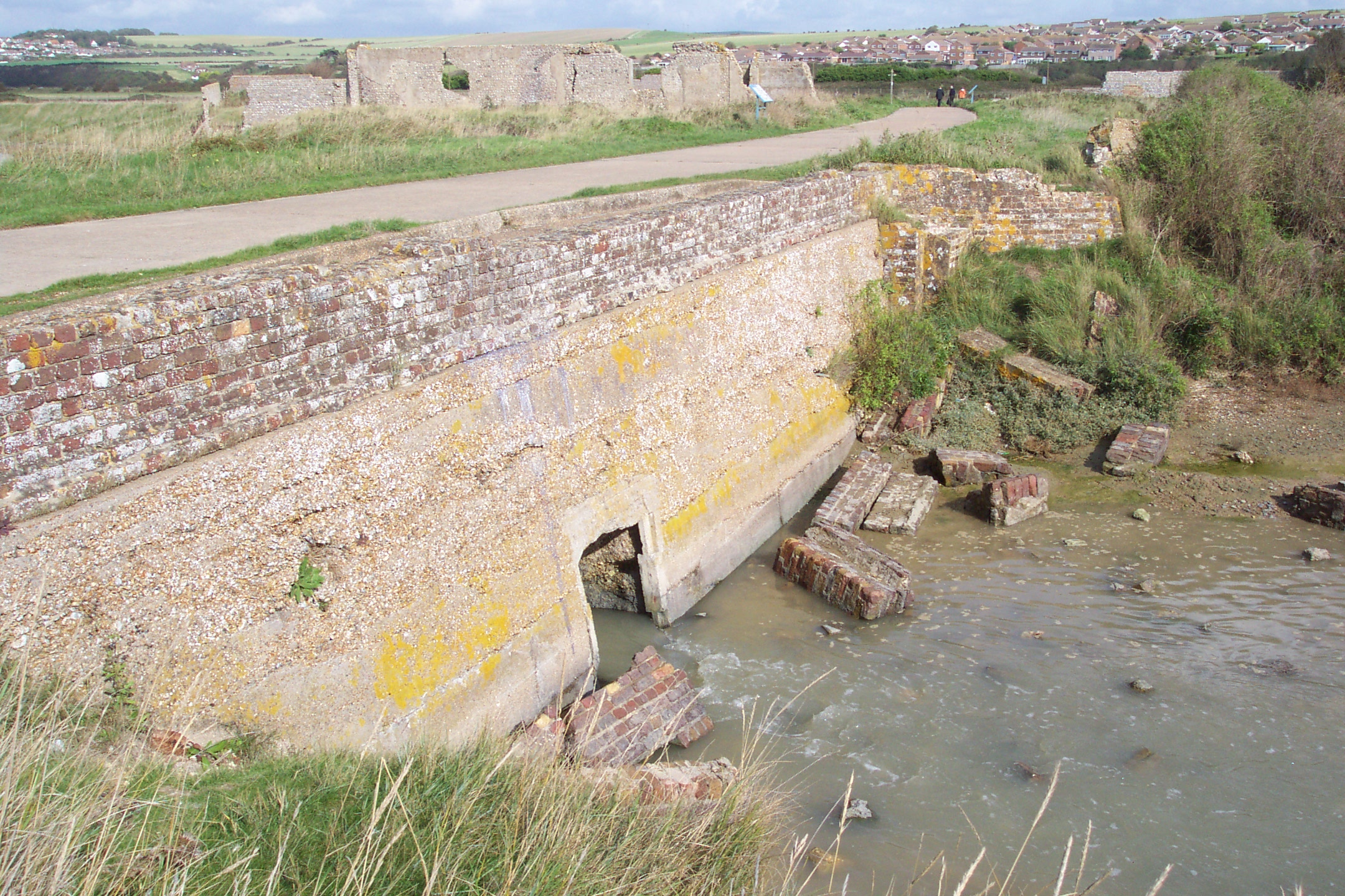 Taken by Tim Trent Showing the ruins of the Tide Mills tidal mill sluice from the mill pond side on a rising tide. This is the other side of the sluice from the seaward side [1]